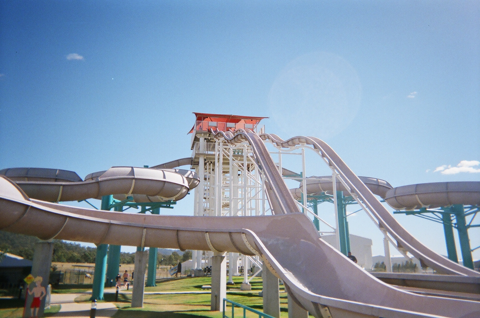 Wet'n'Wild Water World Australia Mach 5